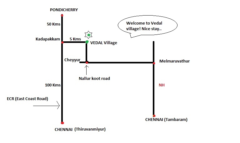 Connecting from Chennai and Pondicherry